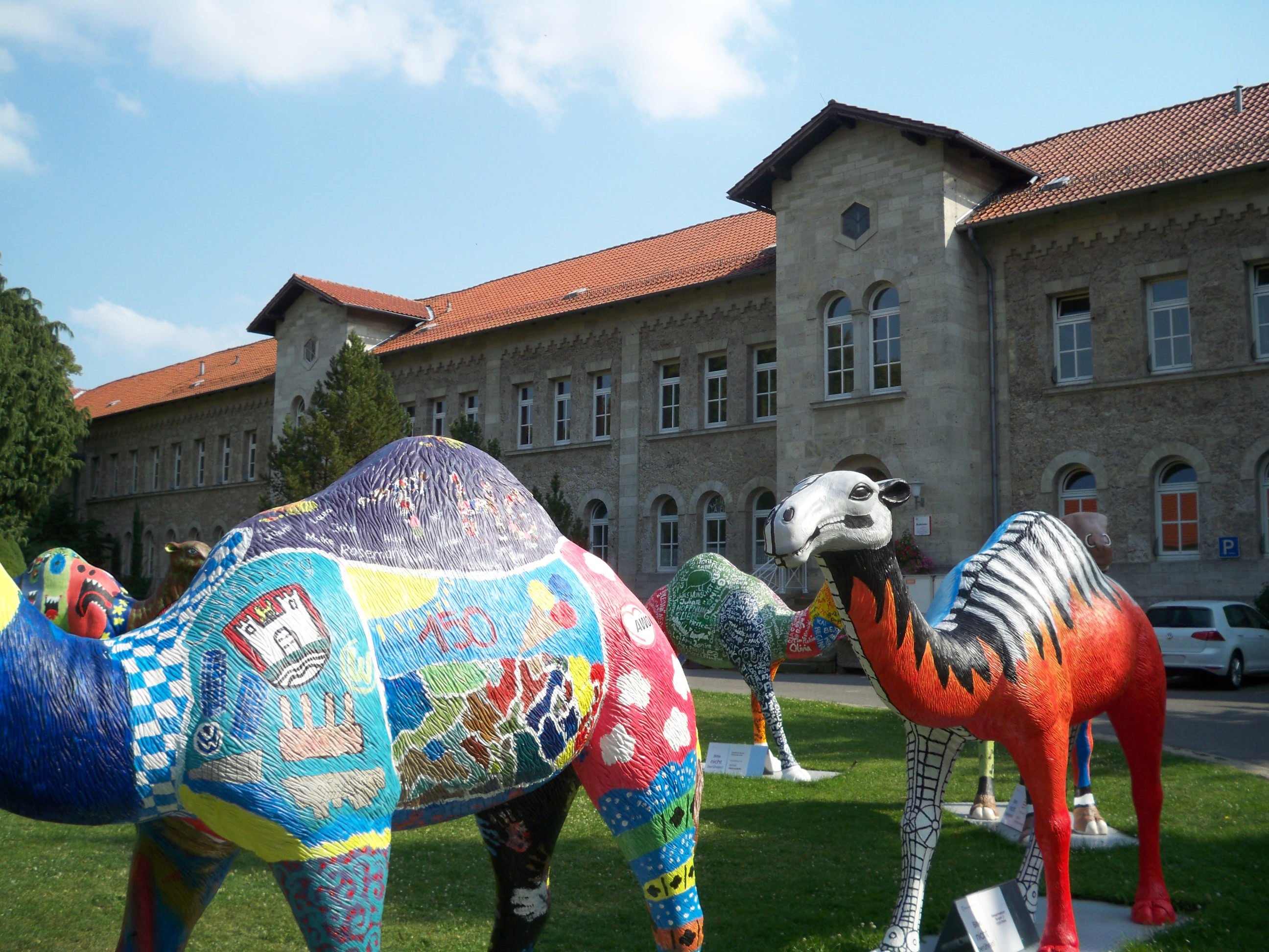 Königslutter am Elm, Lower Saxony, psychiatric hospital, building with dromedars that were painted by students as part of the 150th anniversary of the hospital